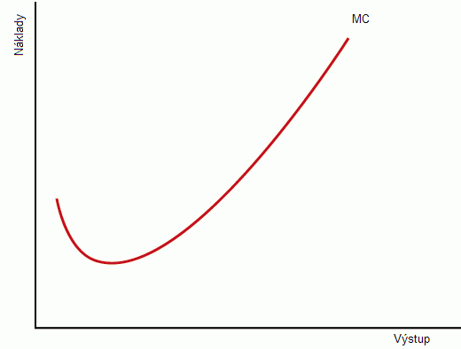 Typical progress of marginal cost